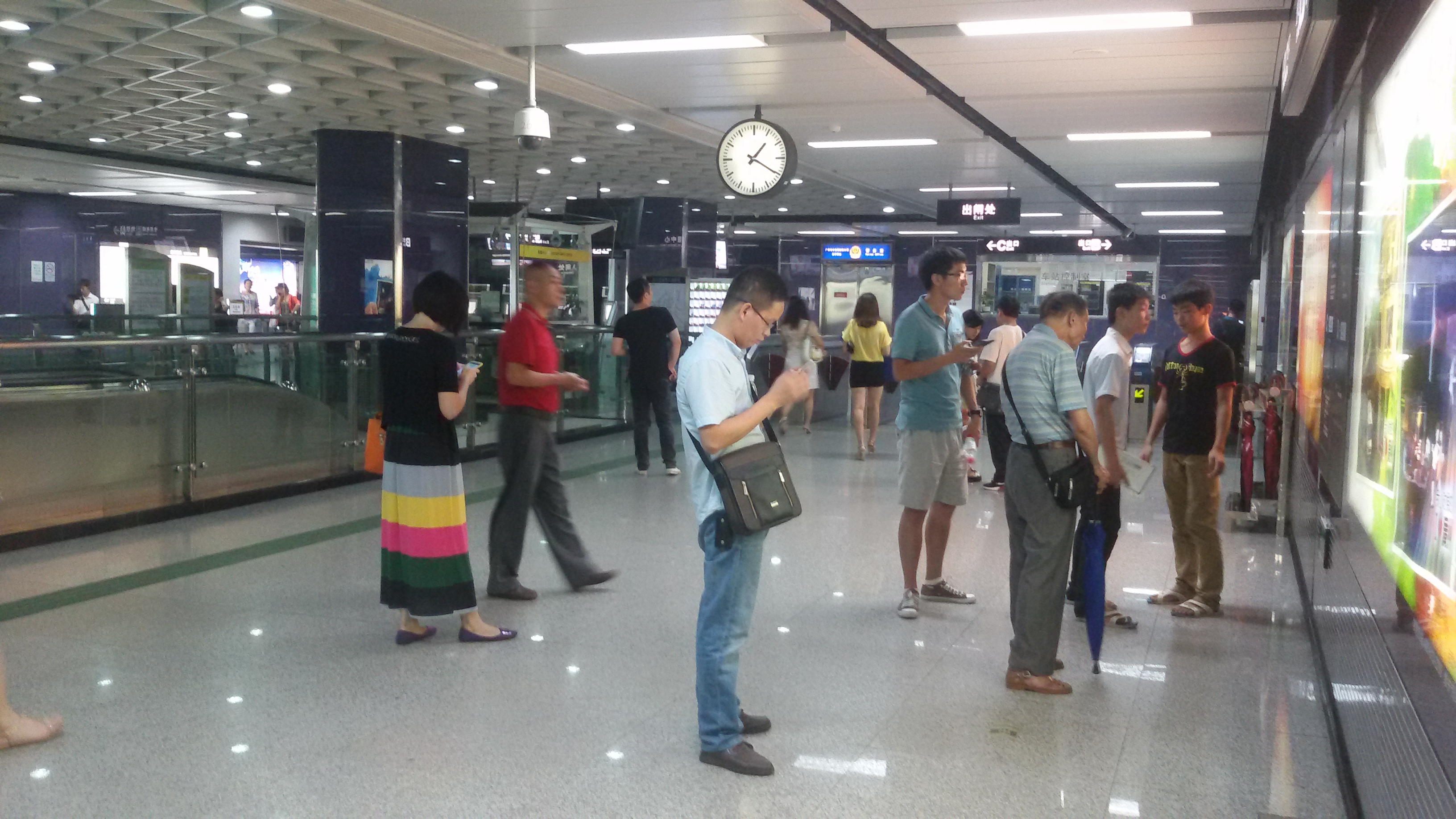 Station Concourse for Wuyangcun Station at Line 5 in Guangzhou Metro. 粵語: 廣州地鐵5號綫五羊邨站嘅站廳